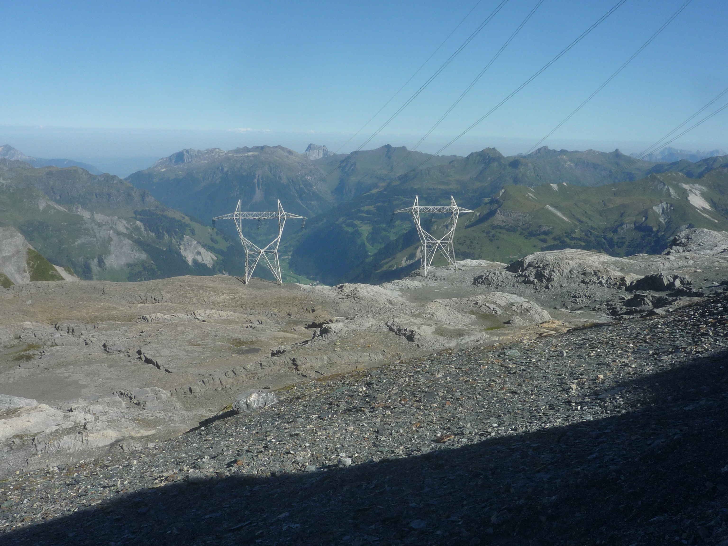 Power Line Tavanasa-Breite in the vincinity of the Vorab Glacier